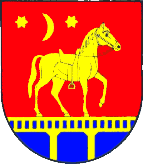 Coat of arms of the former Amt (county) Wiedingharde in Schleswig-Holstein, Germany.